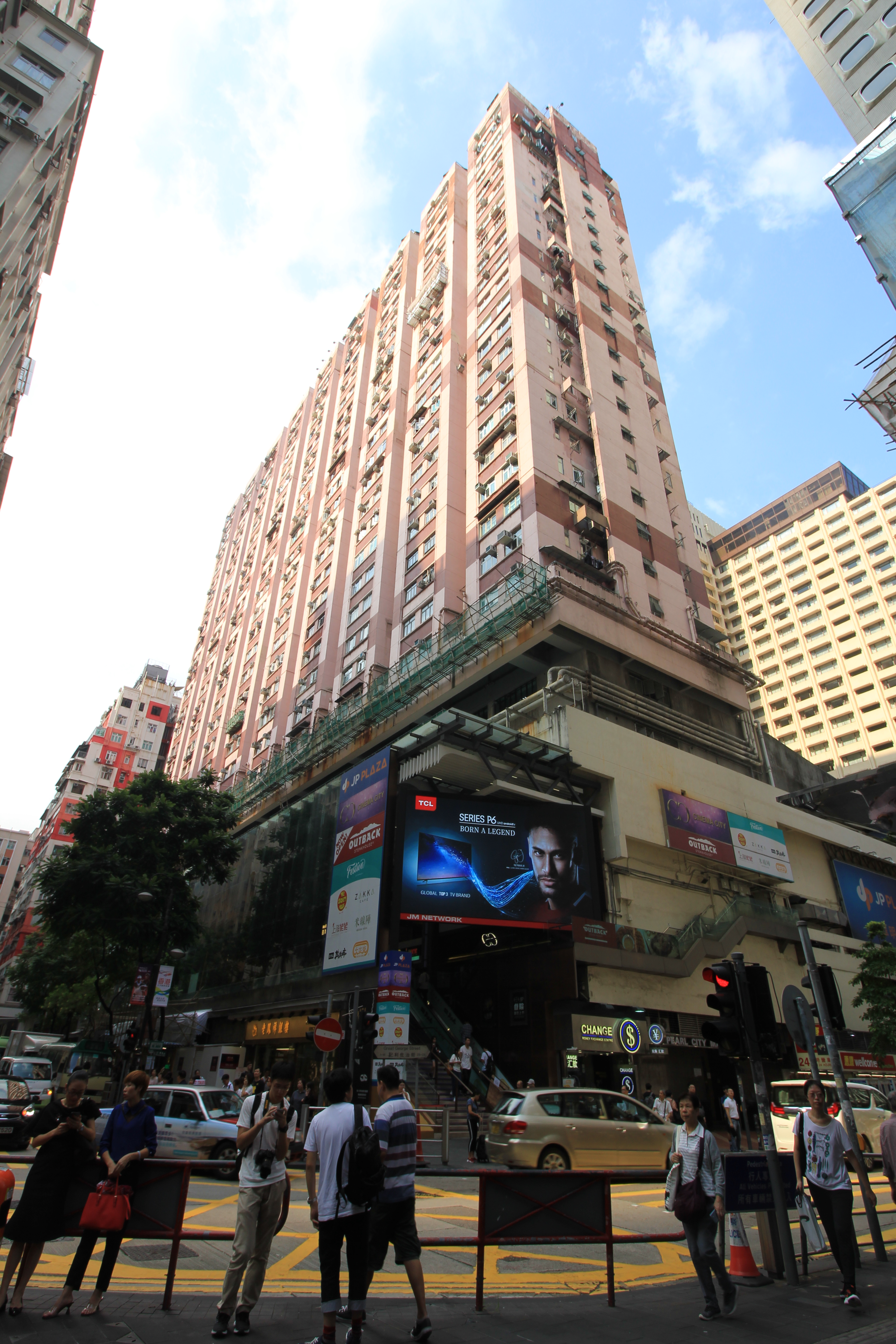 The Pearl City Mansion built in 1971, it was once the tallest building in Hong Kong.